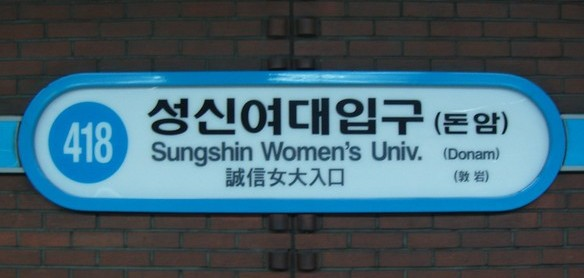 Sungshin Women's University station